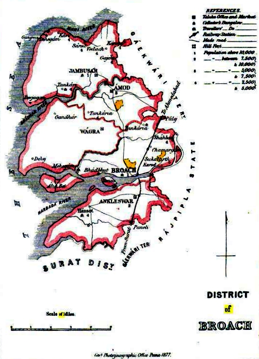 Broach or Bharuch district, Bombay Presidency, British India 1877 map